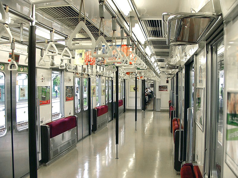 East Japan Railway Series"205", type T'204 (6 doors). Taken at Hashimoto Station, Sagamihara, Japan.